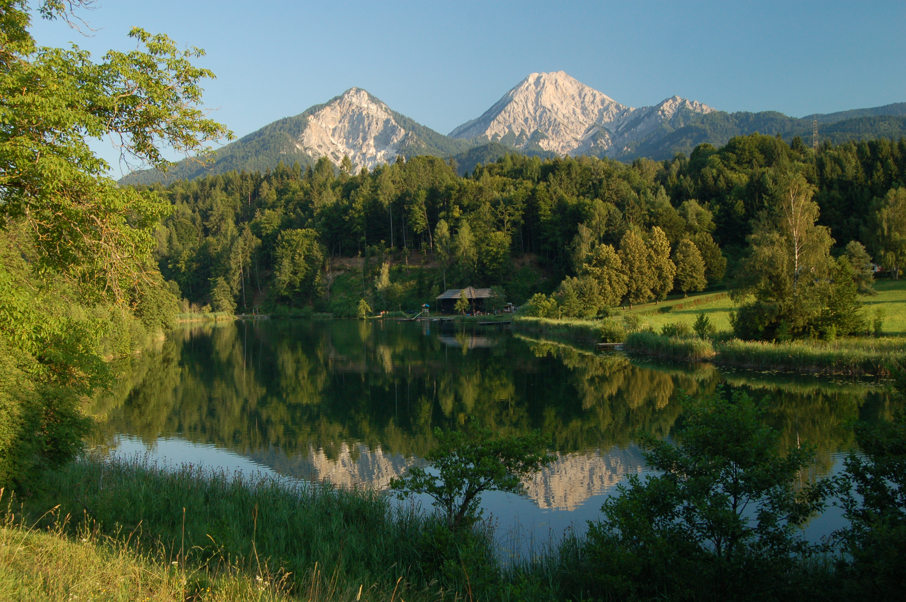 Ferlacher Spitze (1742m), Mittagskogel (Kepa, 2145m) and Kleiner Mittagskogel (1815m) with Lake Aichwaldsee in the foreground, Carinthia, Austira.